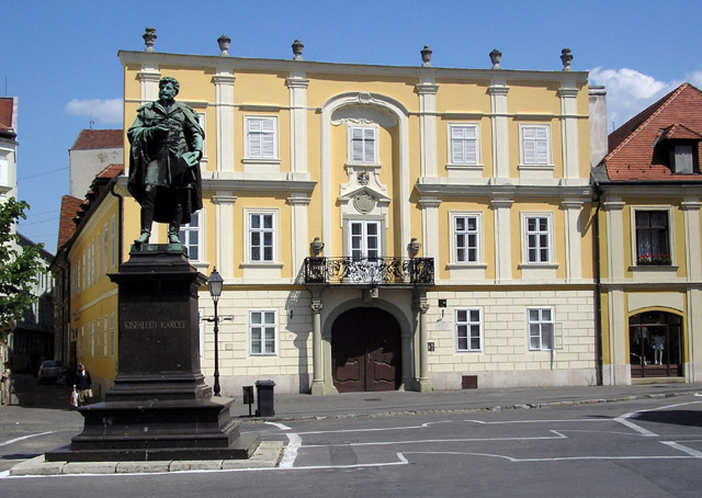 Győr. Bécsi Kapu Square with statue of Károly Kisfaludy.